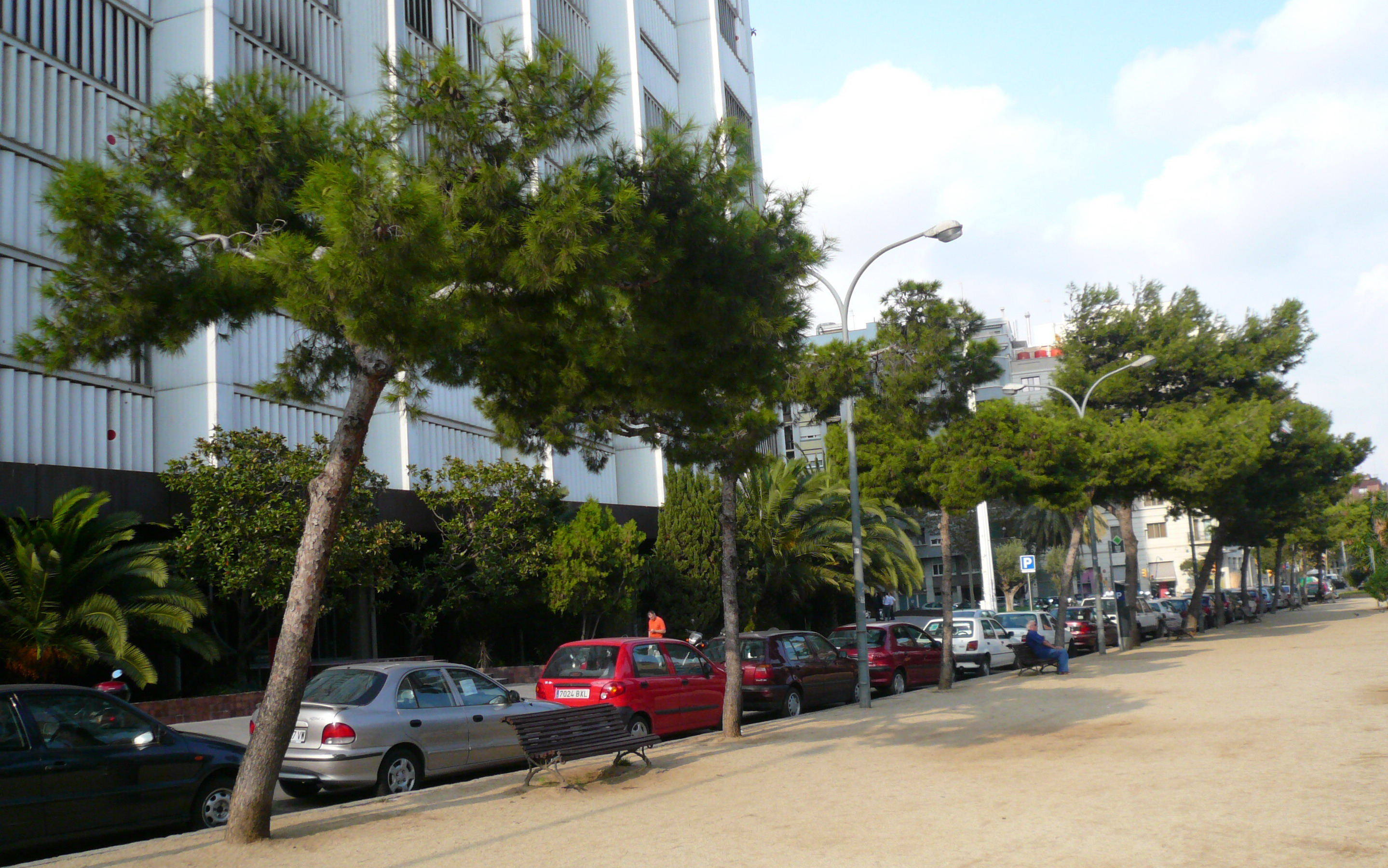 Pinus halepensis in Barcelona. A l'esquerra l'Edifici Telefónica, de 1975